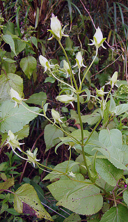 From timberline on Volcan Baru, western Panama. In context at